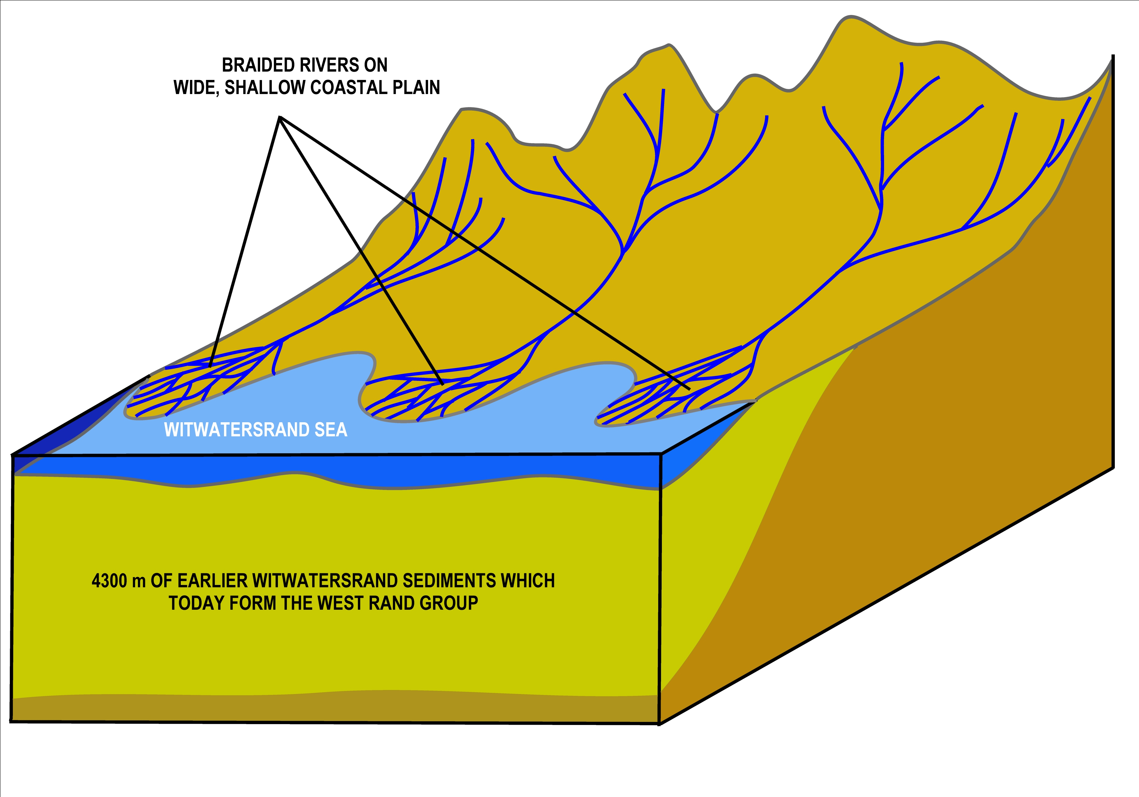 After the Witwatersrand Sea had largely silted up, fast flowing rivers from the north descended on to a wide flat coastal plain, where the rivers formed extensive deltas consisting of braided, sluggish flowing rivers, which dropped their heavier loads (cobble stones, gold and uranium etc.) It is in the fossil remains of these braided rivers that the Witwatersrand gold is found.